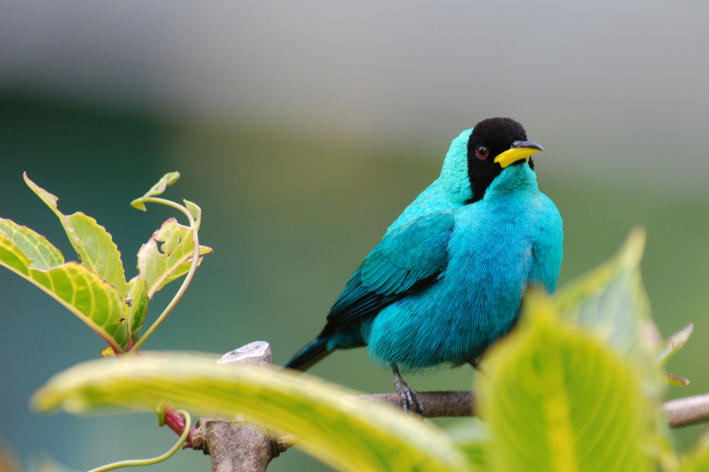 Green Honeycreeper Seen @ Asa Wright Nature Center, Trinidad. Feeding mainly on fruit they also look for nectar from flowers and occasionally eat insects. The female is quite a different color than the male seen here. A very common bird in this part of the world.